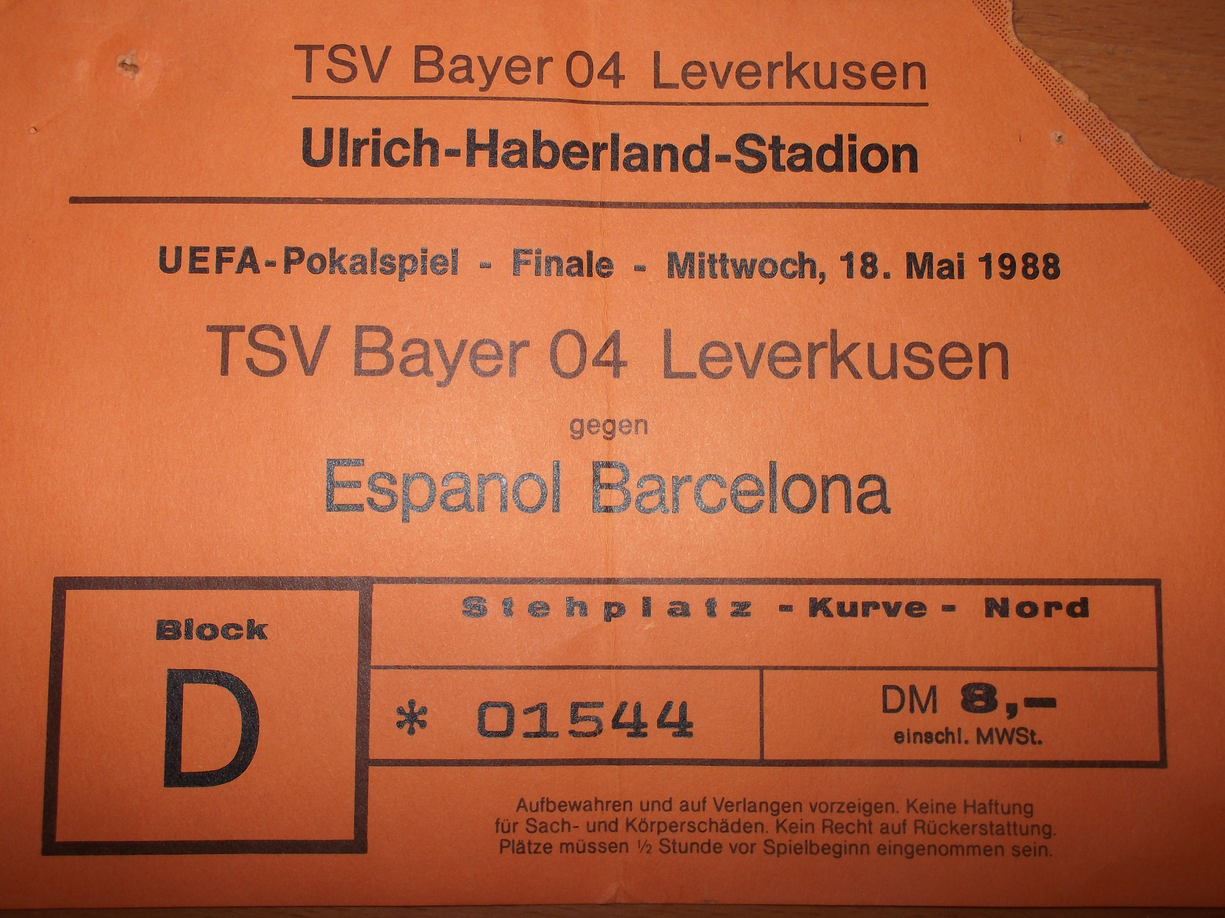 Ticket of TSV Bayer Leverkusen−RCD Espanyol game 18/5/1988 UEFA Cup Finals